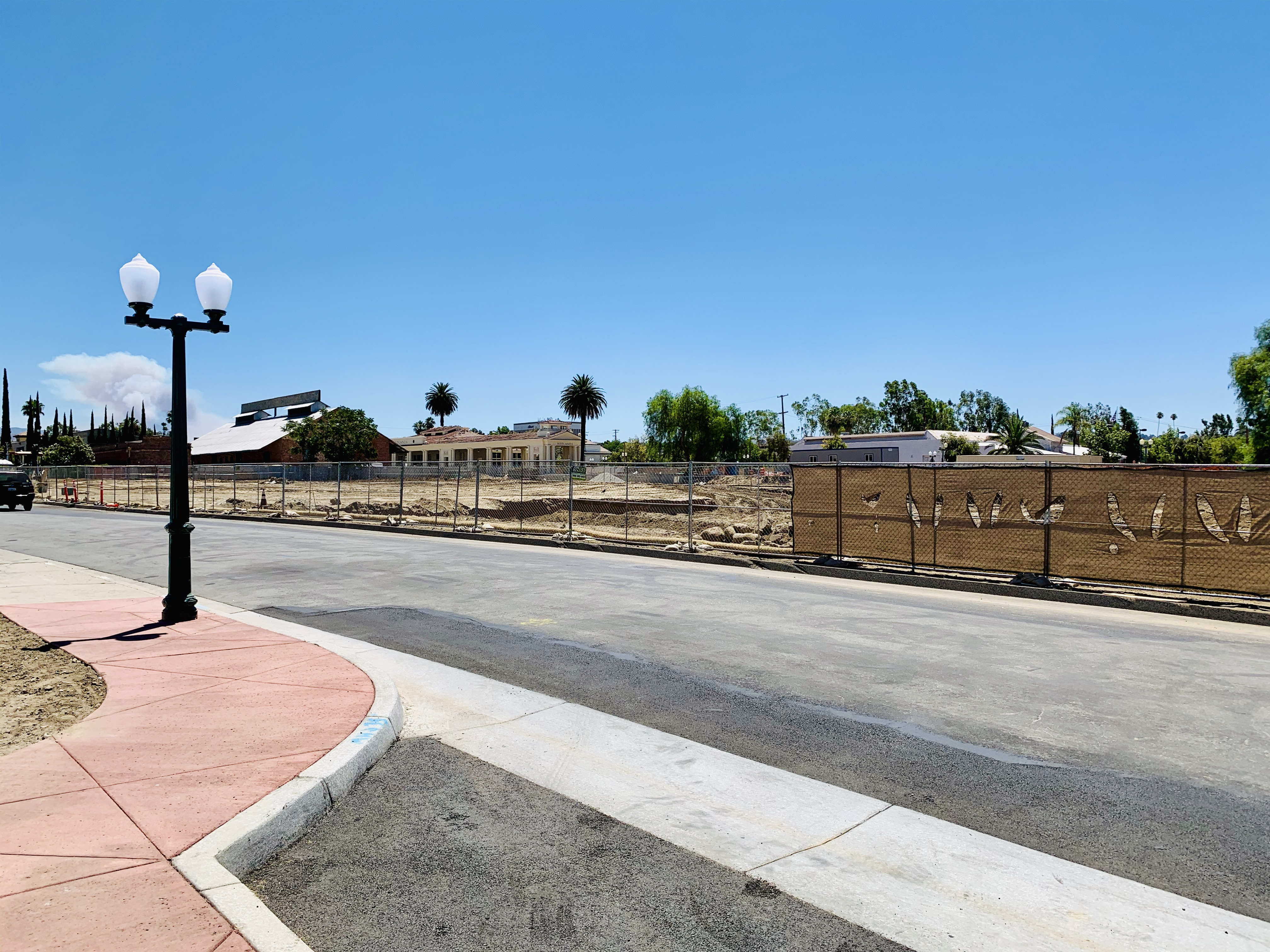 Redlands Downtown Station Under Construction in 2020 with four level parking structure excavation beginning in fore front. Also, Apple Fire smoke in background.